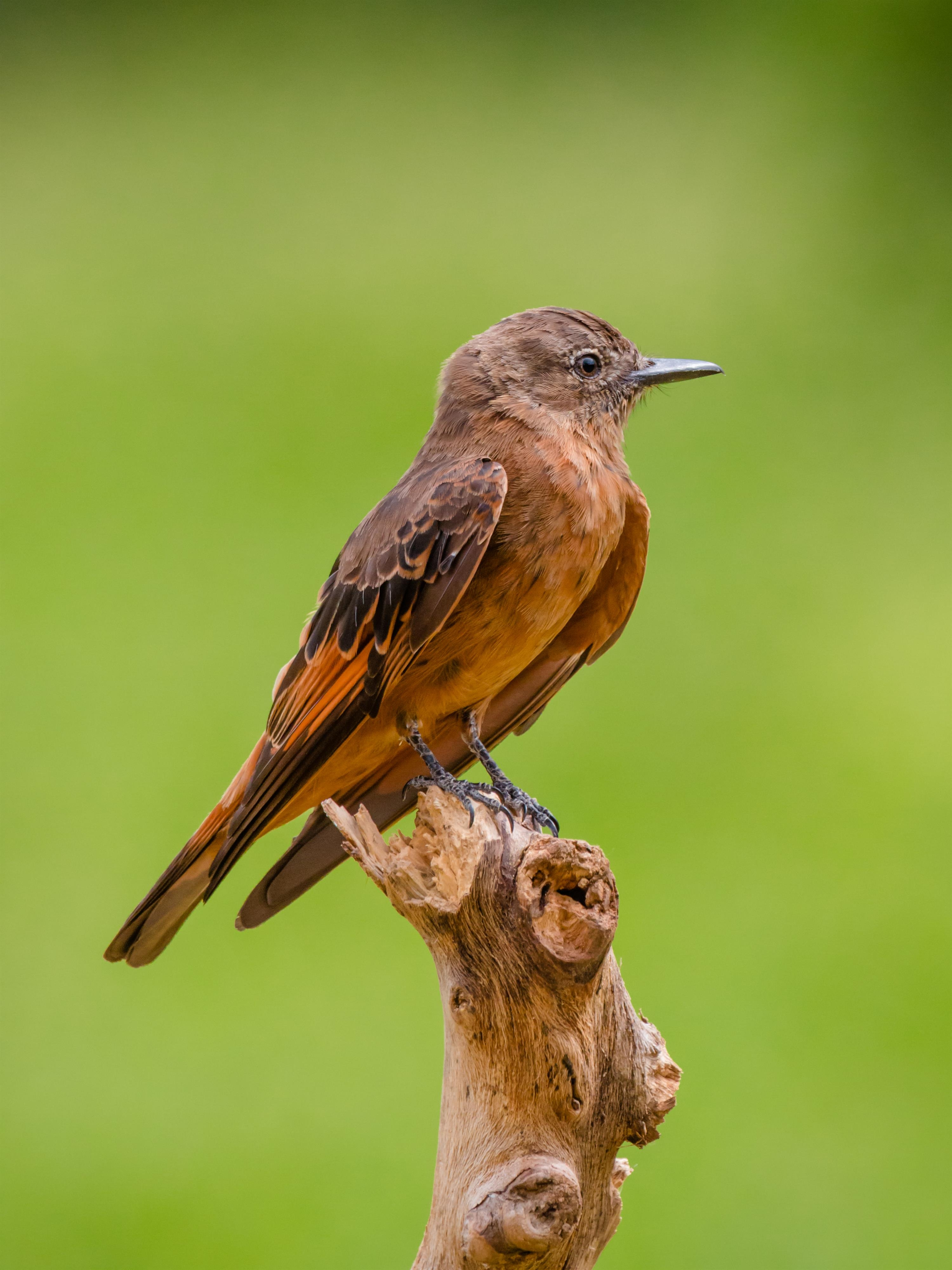 Cliff flycatcher (Hirundinea ferruginea) in Pindamonhagaba - SP, Brazil.